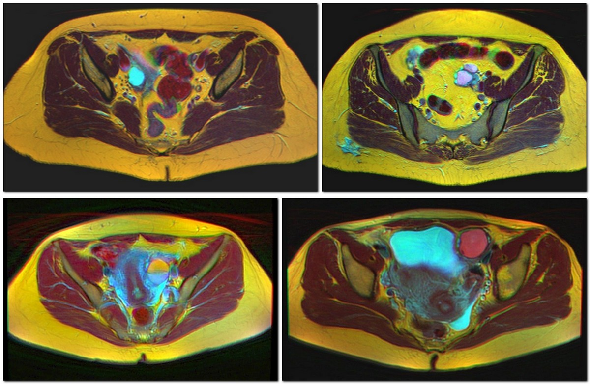 Four kinds of ovarian cysts on trichromatic Color MRI A: Functional ovarian cyst B: Hemorrhagic cyst C: Fat-fluid level of mature teratoma D: Endometrioma Key to colors: Yellow: Fat Cyan: Water Gray/White: Blood Red: Chronic blood products Dark red: Muscle